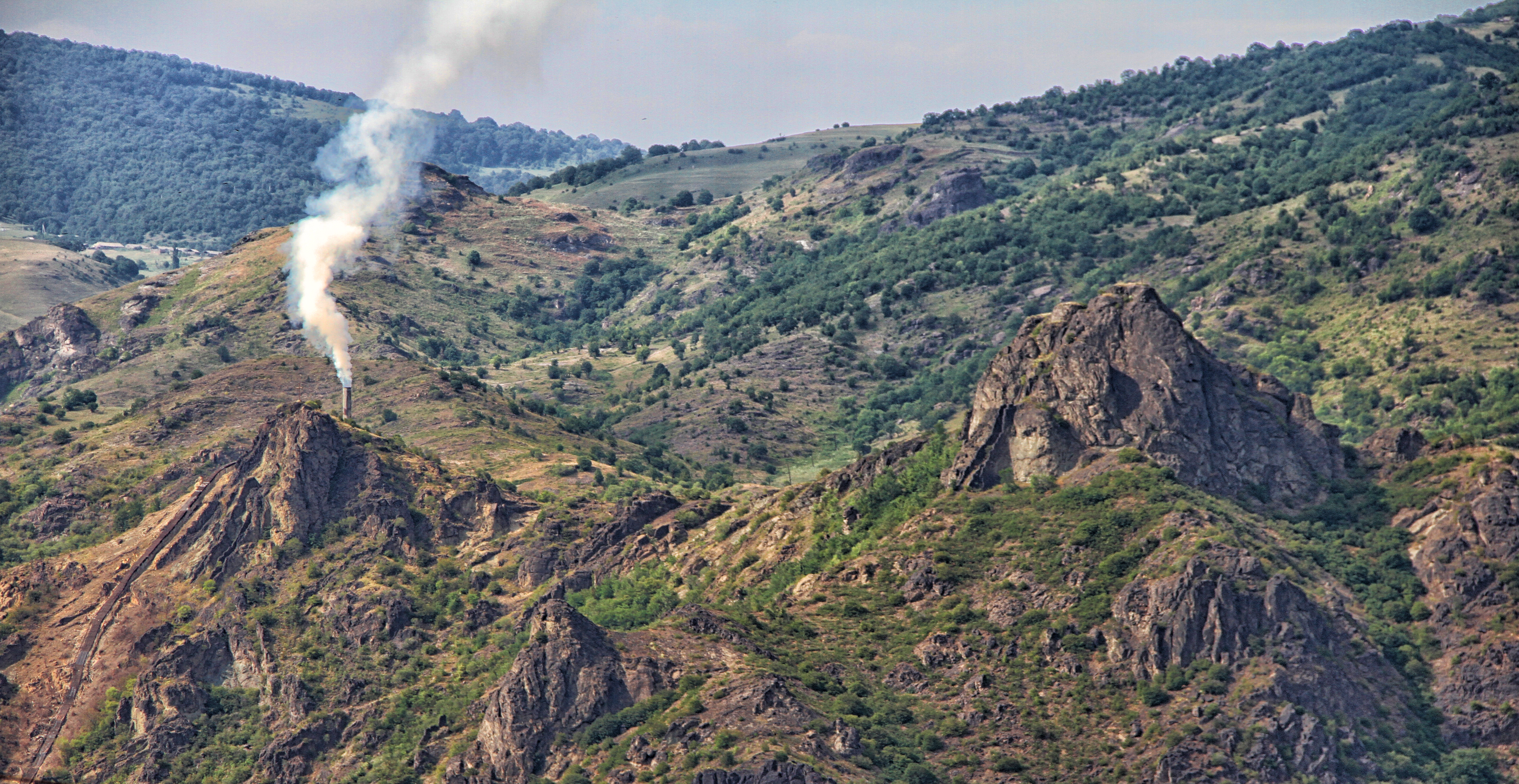 Alaverdi copper mine in the mountains.